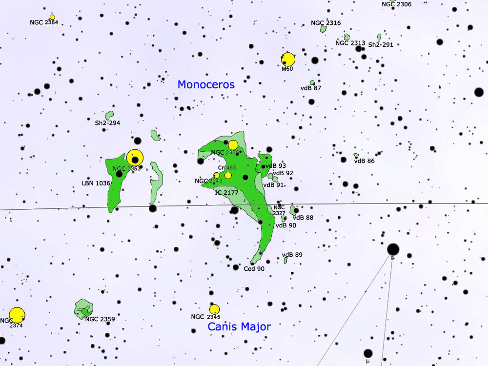 Map of Seagull Nebula molecular cloud